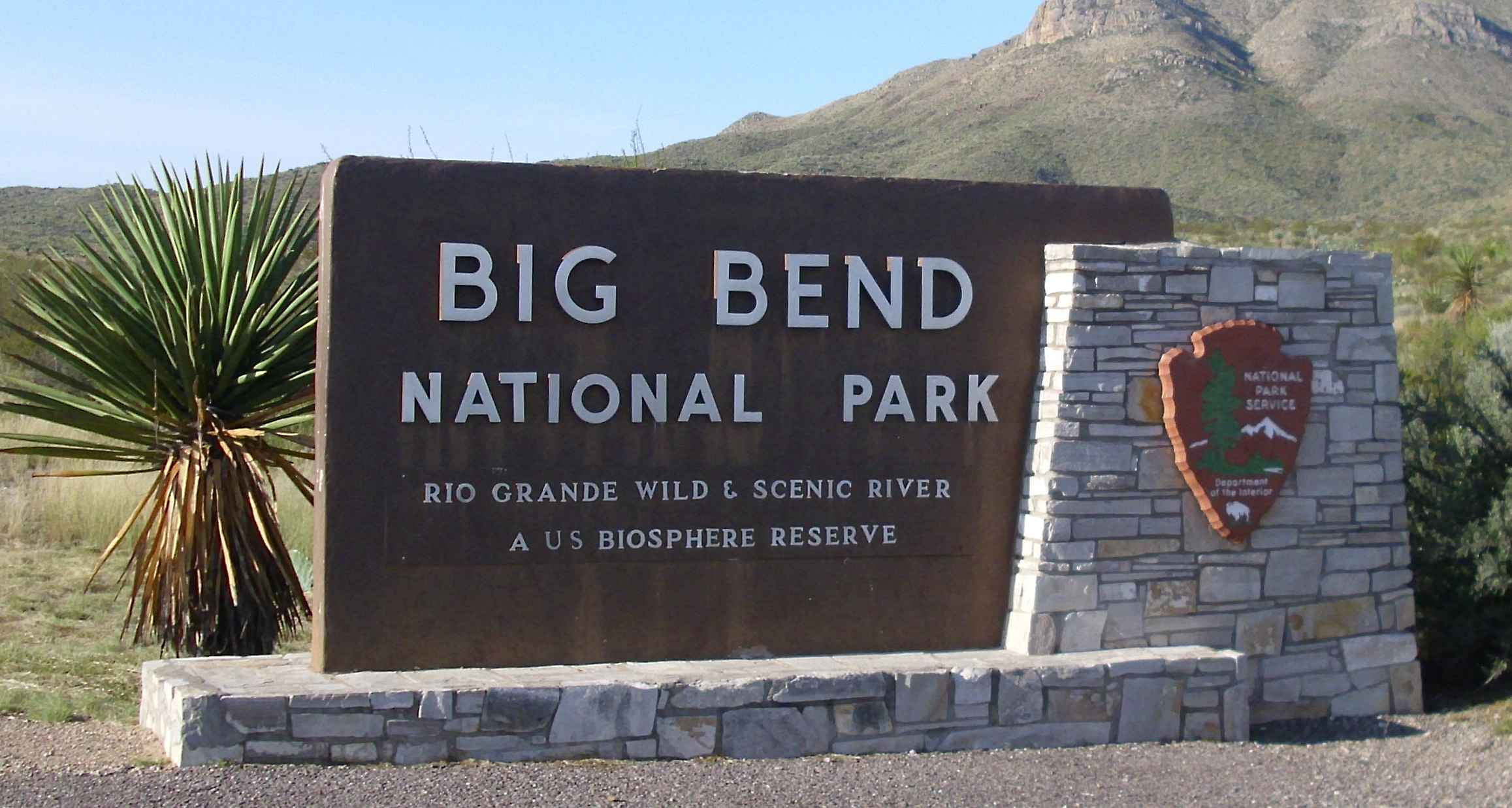 Sign in Big Bend National Park, Texas